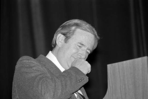 Jerry Falwell, evangelical and leader of the Moral Majority - Tallahassee, Florida